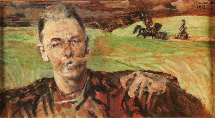 "Portrait of Michał Sozański" (Polish painter, 1853-1923)1907, oil on wood, 43,5 × 80 cm, private gallery